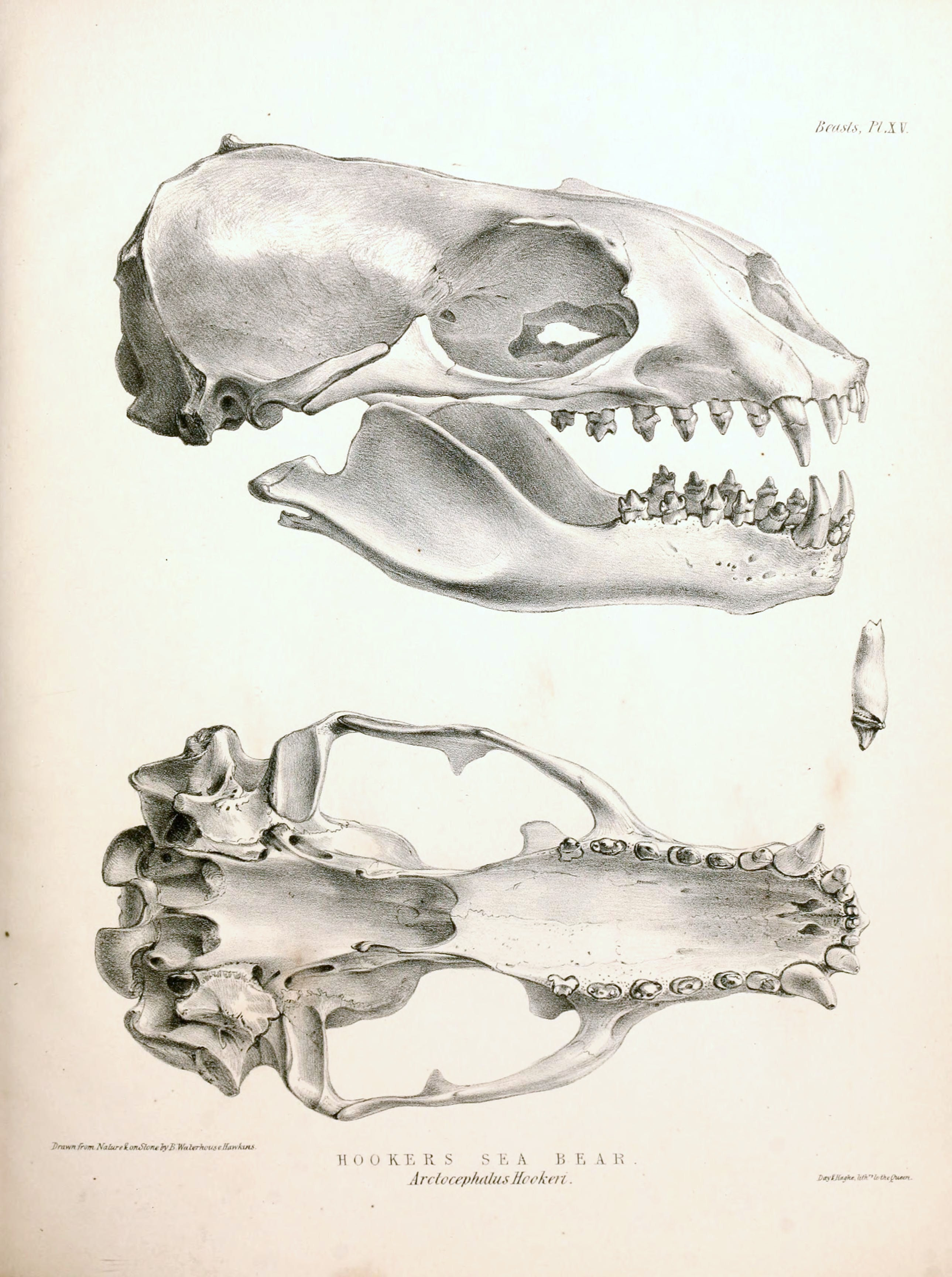 New Zealand Sea Lion skull (Phocarctos hookeri)